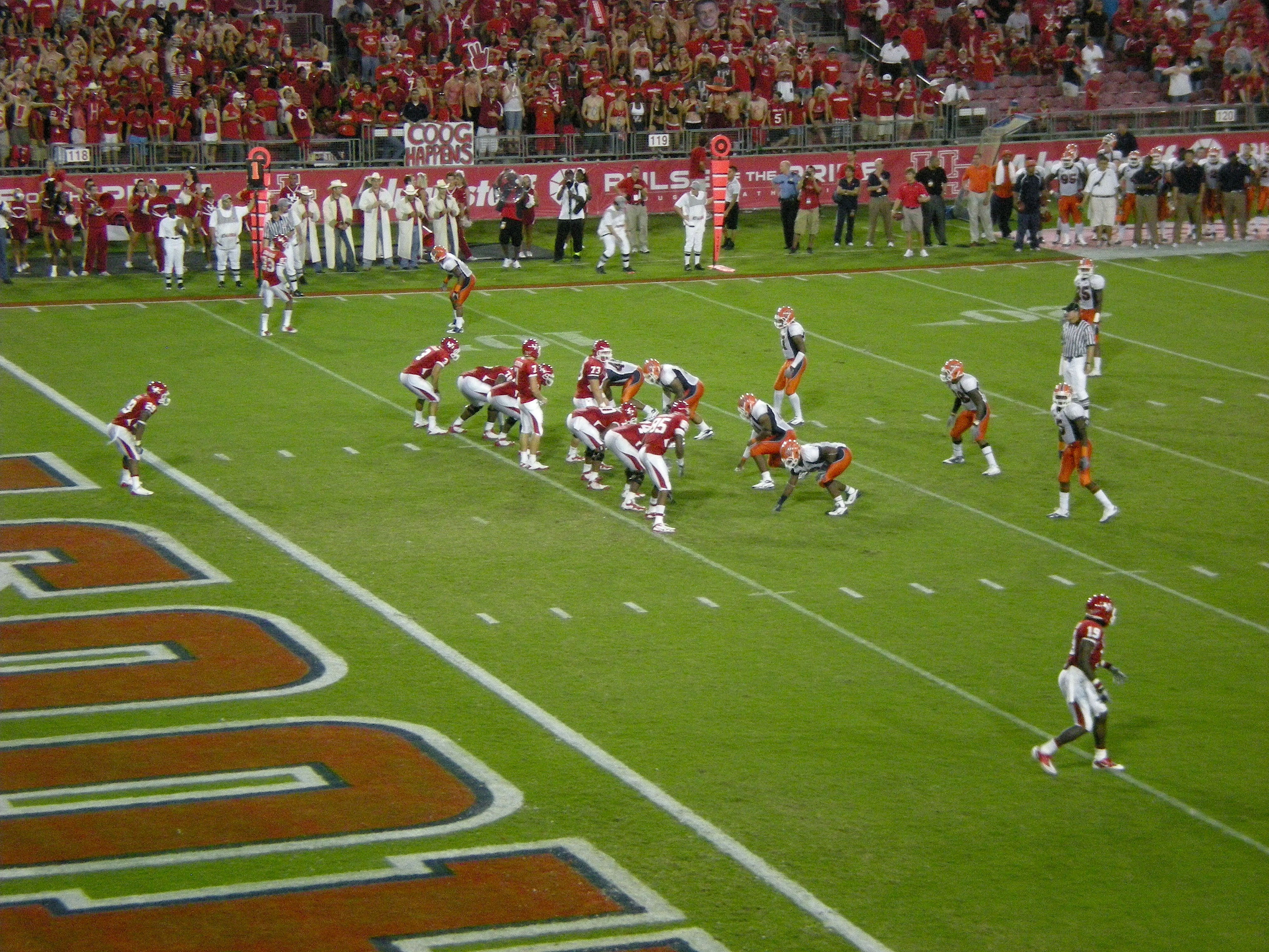 The 2010 Houston Cougars football team competing against UTEP Miners. The match tied the largest-ever attendance for the stadium in its current capacity, set from the week prior.